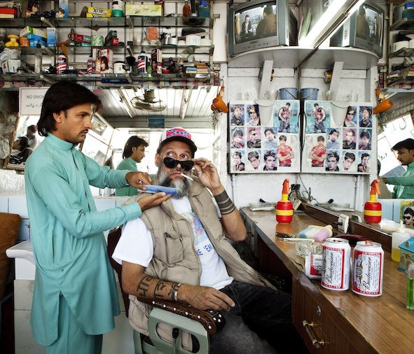 One in a series of mise-en-scene photographs from the artist Aman Mojadidi: Afghan by blood, redneck by the grace of God.